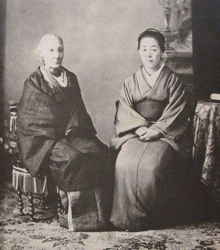 (1827–1903) at an old age at the left, with her daughter Takako (1852–1938)